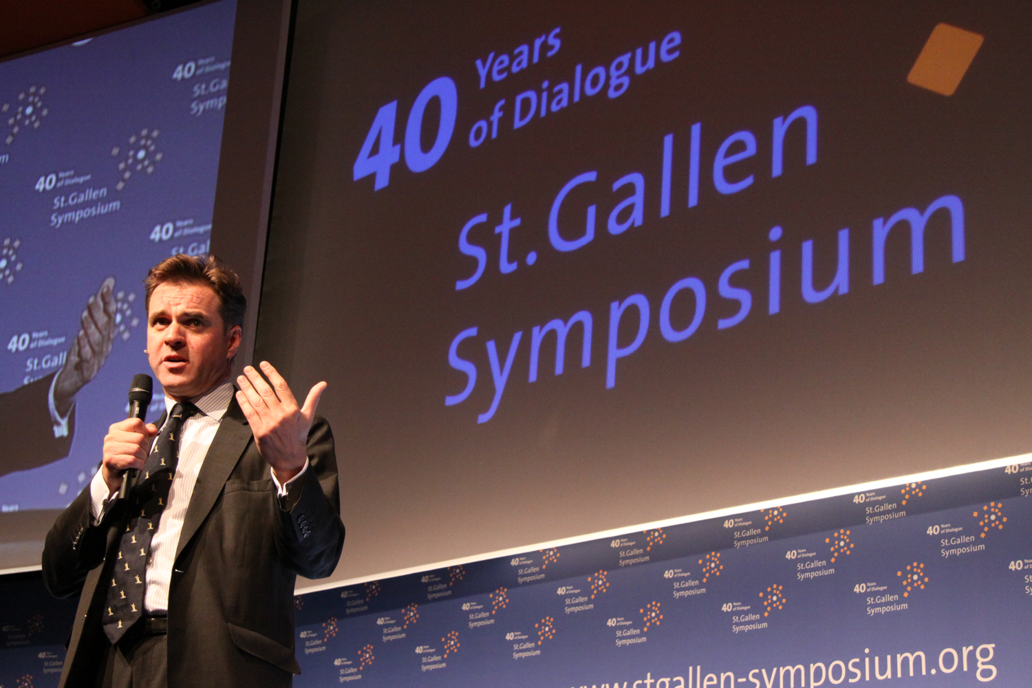 Niall Ferguson in May 2010 at the 40. St. Gallen Symposium at the University of St. Gallen